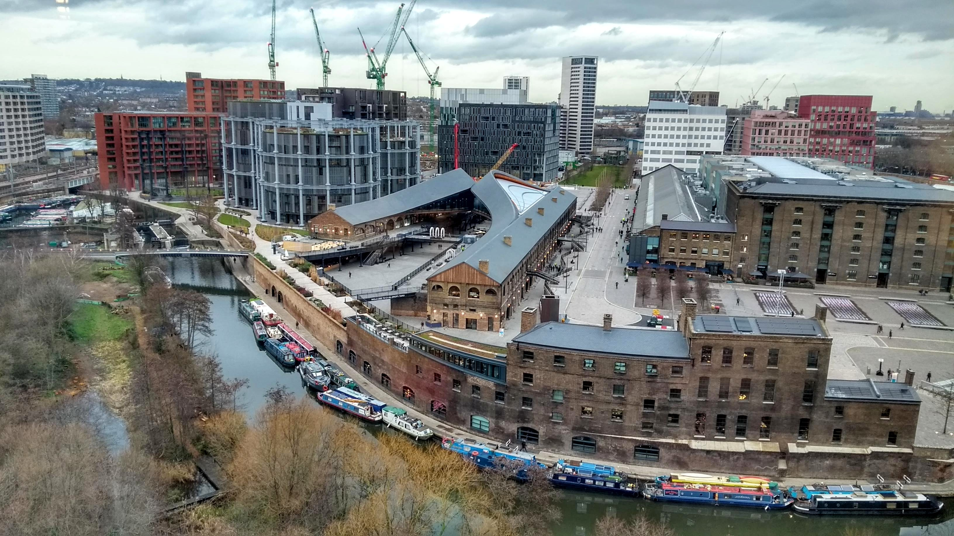 From left to right: Camley Street Natural Park, the Regent's Canal, the converted gasholders, Coal Drops Yard, Central St Martins.